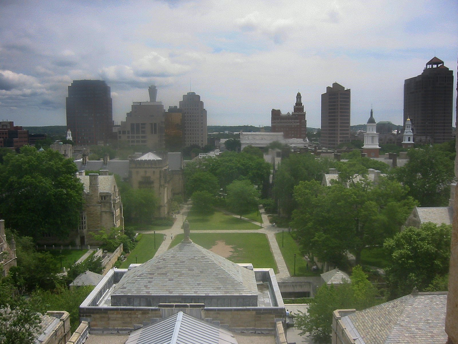 Downtown New Haven, seen from the top floor of Yale's Sterling Memorial Library